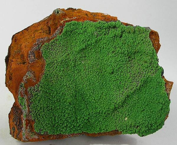 Conichalcite Locality: Ojuela Mine, Mapimí, Municipio de Mapimí, Durango, Mexico (Locality at ) Size: 10.4 x 8.9 x 4.2 cm. What you see here as a field of pretty, powdery green conichalcite here is actually made up of thousands of tiny crystalline balls. They form a solid field on the underlying limonite matrix. Pretty contrast between the moss green and rust colors. Quite a large plate for the locality!